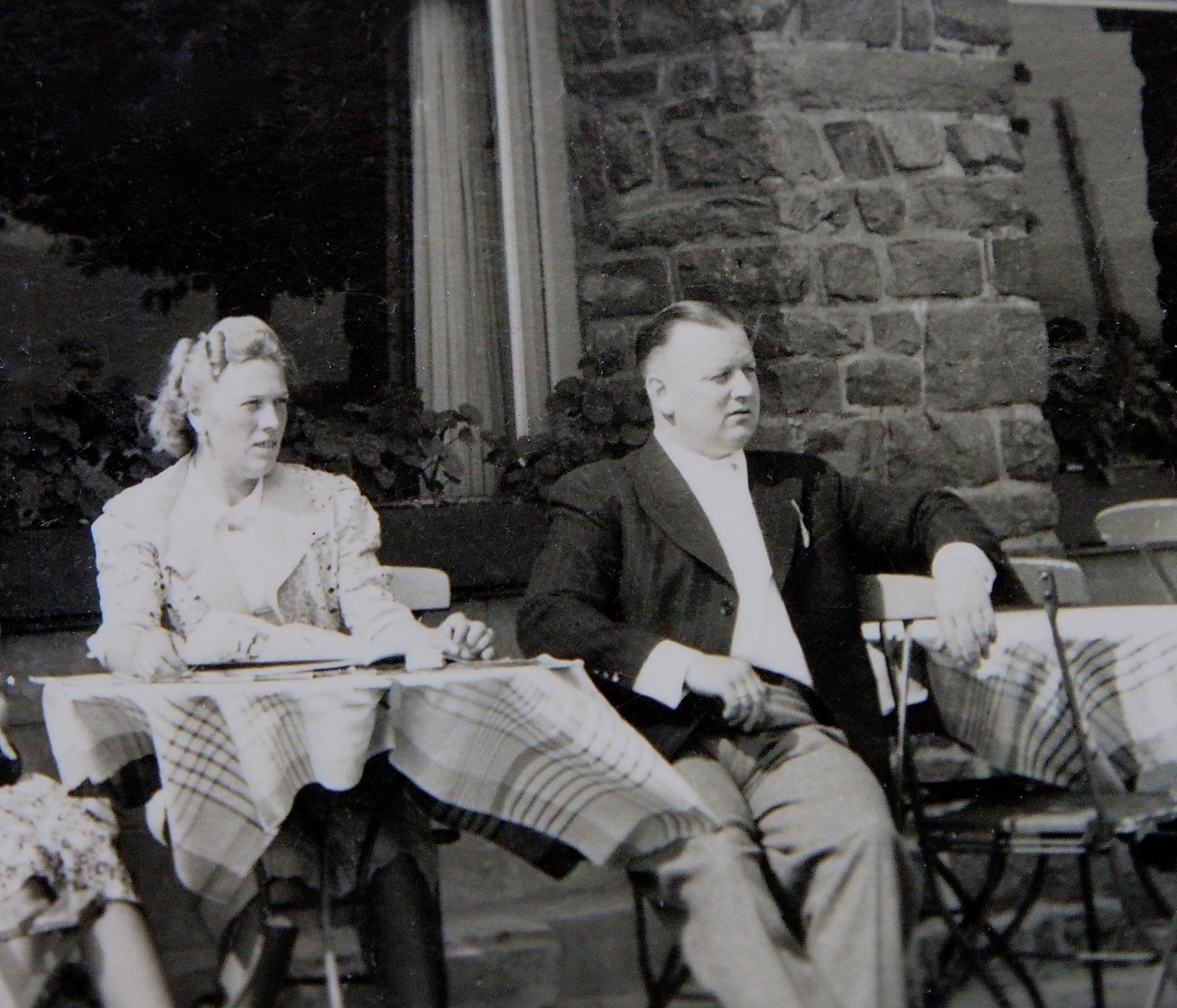 Maria and Josef Otten are illlustrated on a photograph from the 1940s. They were in the time of the national socialism Jew's rescuers and are honoured since 2015 in the Israeli memorial Yad Vashem as Righteous Among the Nations.